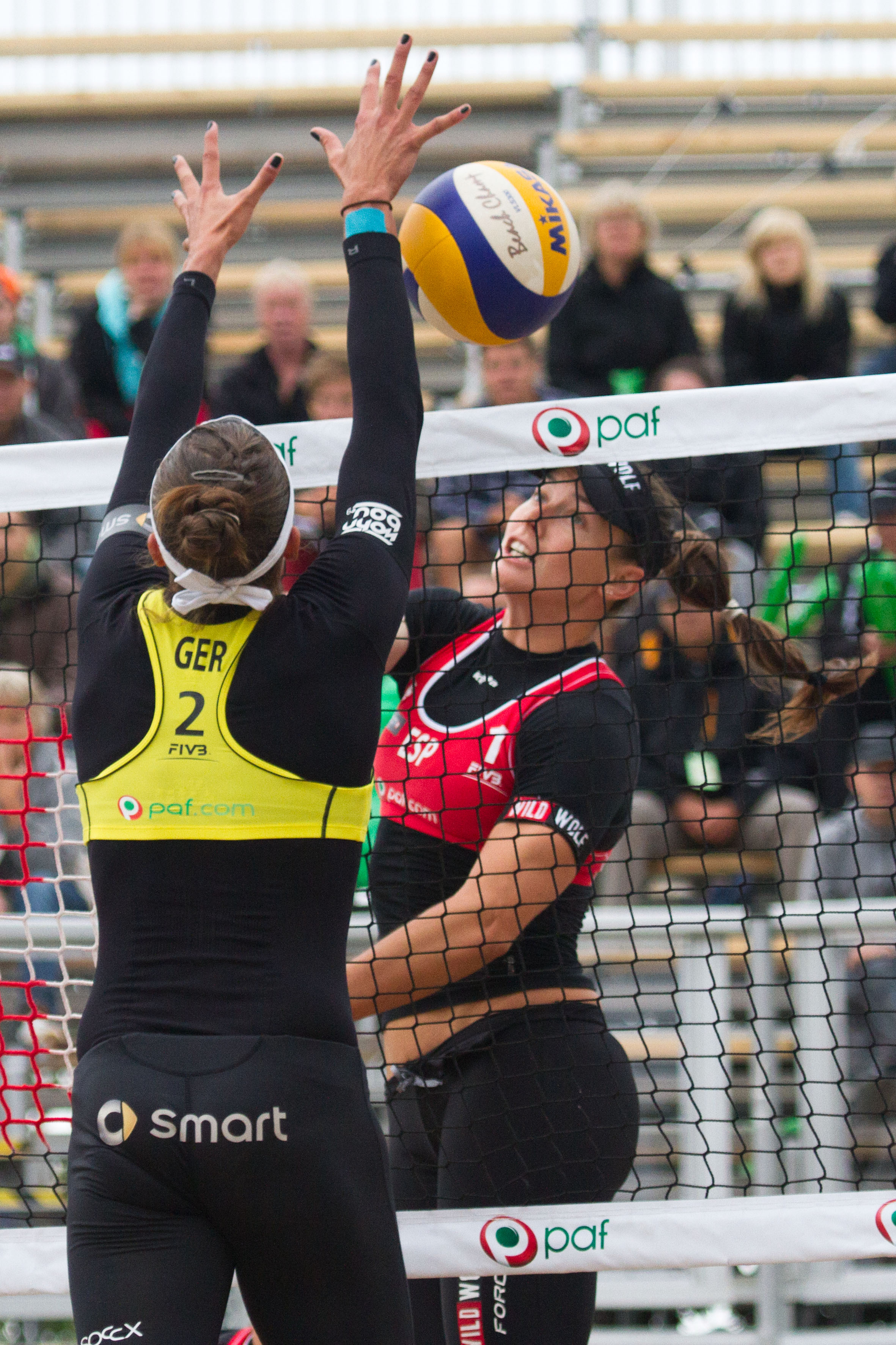 Holtwick and Semmler (yellow 2) of Germany defeat Liliana (red 1) and Baquerizo of Spain in the final to take gold. The final day of the Paf Open in Mariehamn, Åland, Finland, September 2 2012. Photograph: Rob Watkins/ This picture is free to use as long as it it credited: Rob Watkins/